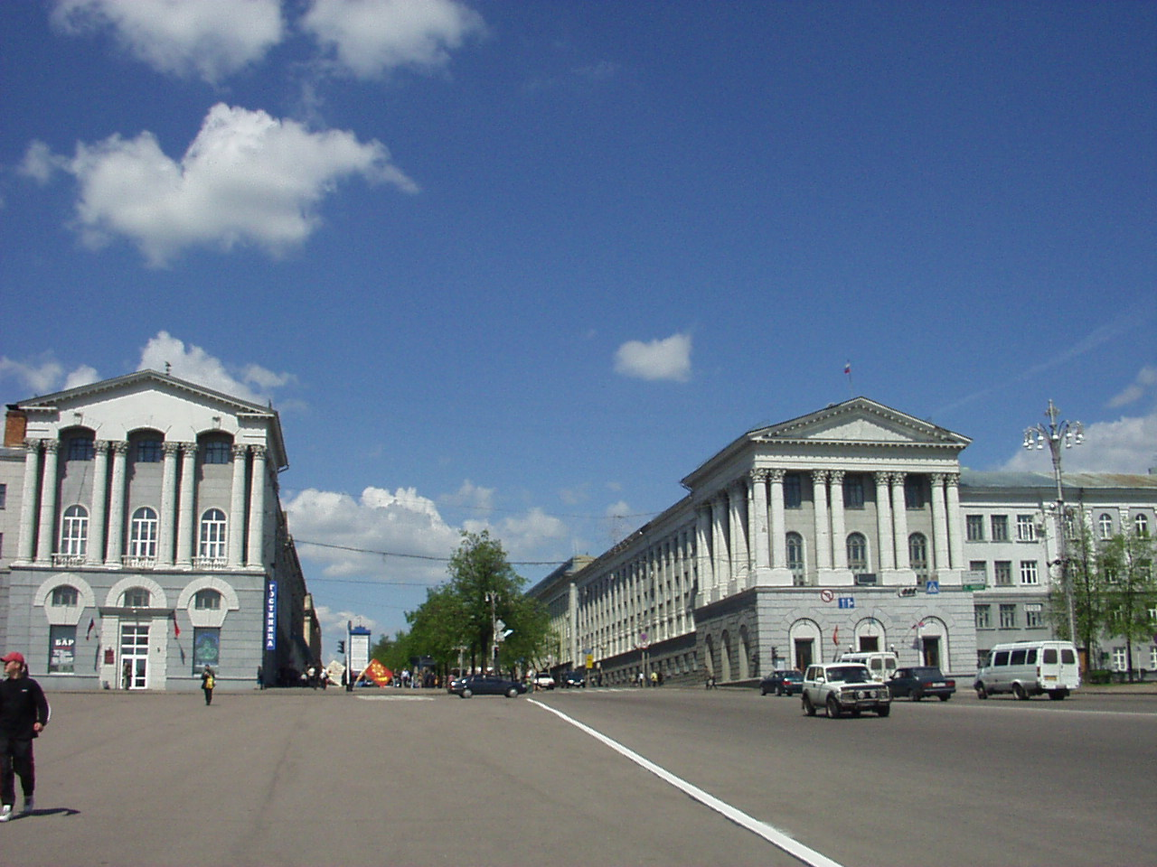 Red square in Kursk city, Russia, building on the right is City Hall, building on the left is a hotel